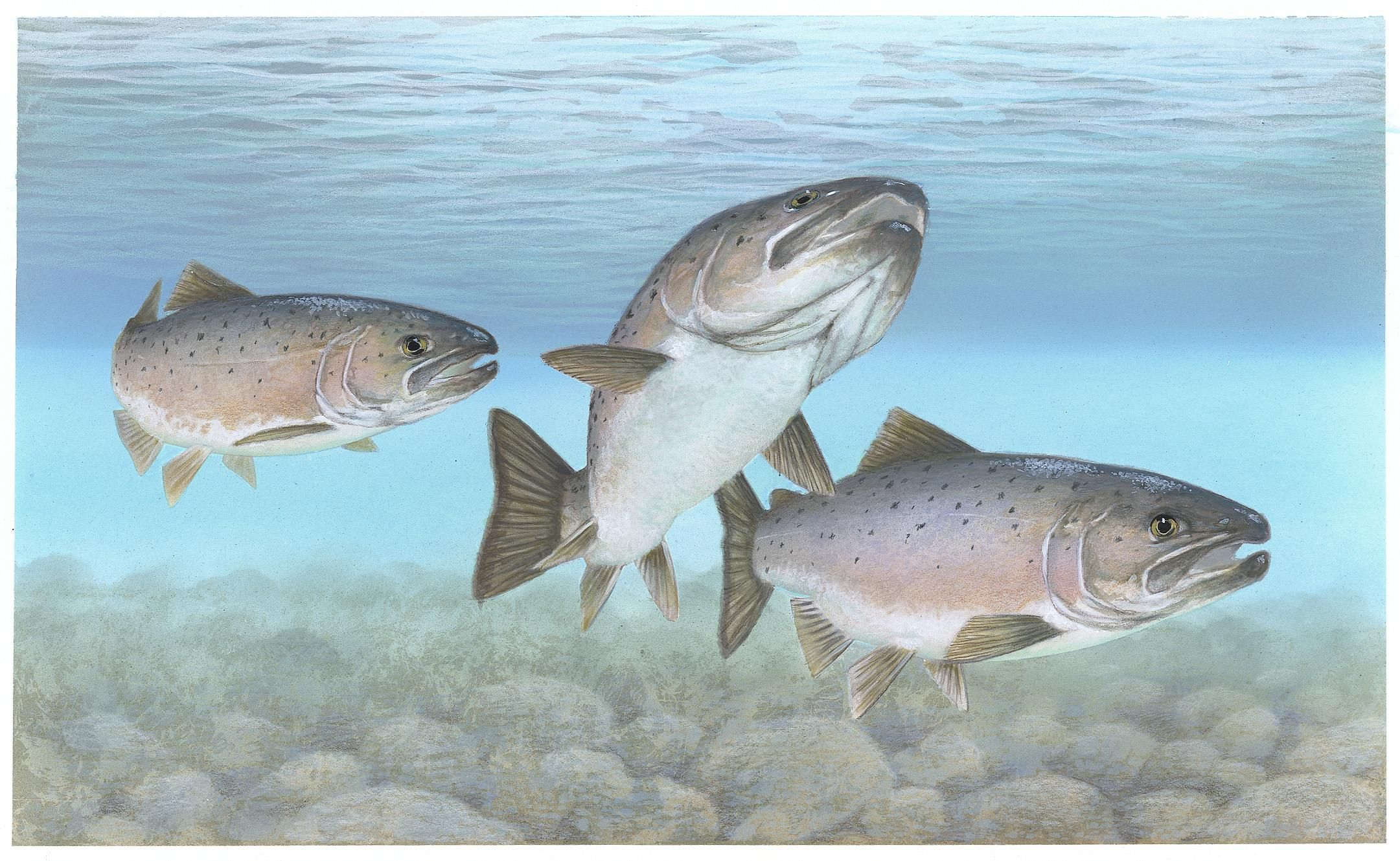 Image title: Atlantic salmon Atlantic fish Image from Public domain images website